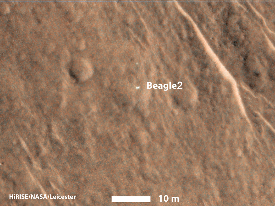 Beagle 2 Lander Observed by Mars Reconnaissance Orbiter This annotated image shows a bright feature interpreted as the United Kingdom's Beagle 2 Lander with solar arrays at least partially deployed on the surface of Mars. Beagle 2 was released by the European Space Agency's Mars Express orbiter but never heard from after its expected Dec. 25, 2003, landing. This and other images from the High Resolution Imaging Science Experiment (HiRISE) camera on NASA's Mars Reconnaissance Orbiter have located the lander close to the center of its planned landing area. The 10-meter scale bar indicates a dimension of 32.8 feet. The location is approximately 11.5 degrees north latitude, 90.4 degrees east latitude. The image is an excerpt from HiRISE observation ESP_039308_1915, taken Dec. 15, 2014. Other image products from this observation are available at . The University of Arizona, Tucson, operates HiRISE, which was built by Ball Aerospace & Technologies Corp., Boulder, Colo. NASA's Jet Propulsion Laboratory, a division of the California Institute of Technology in Pasadena, manages the Mars Reconnaissance Orbiter Project for NASA's Science Mission Directorate, Washington.